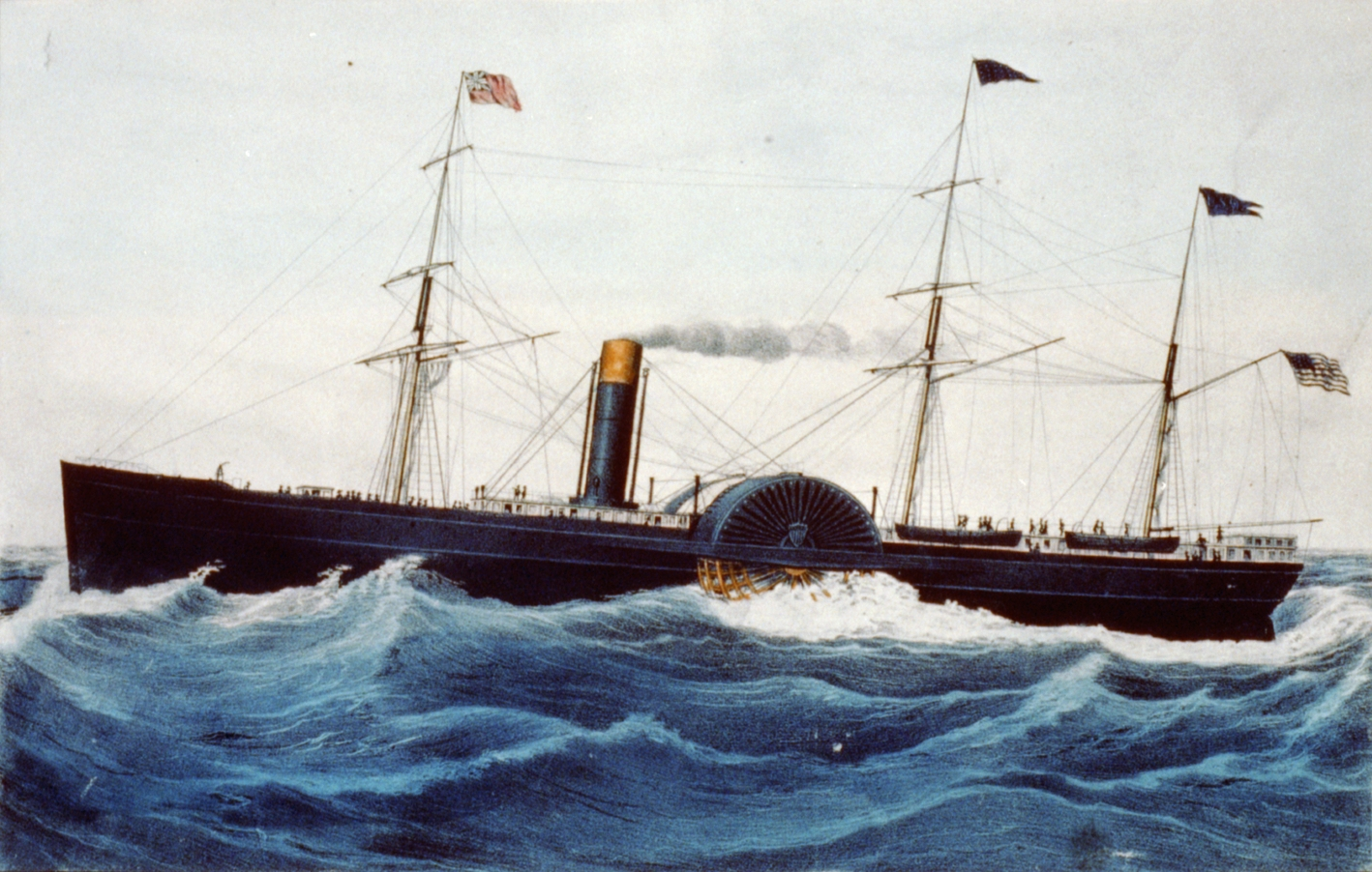 The U.S. Mail steamship Baltic (launched 1850) of the Collins Line.